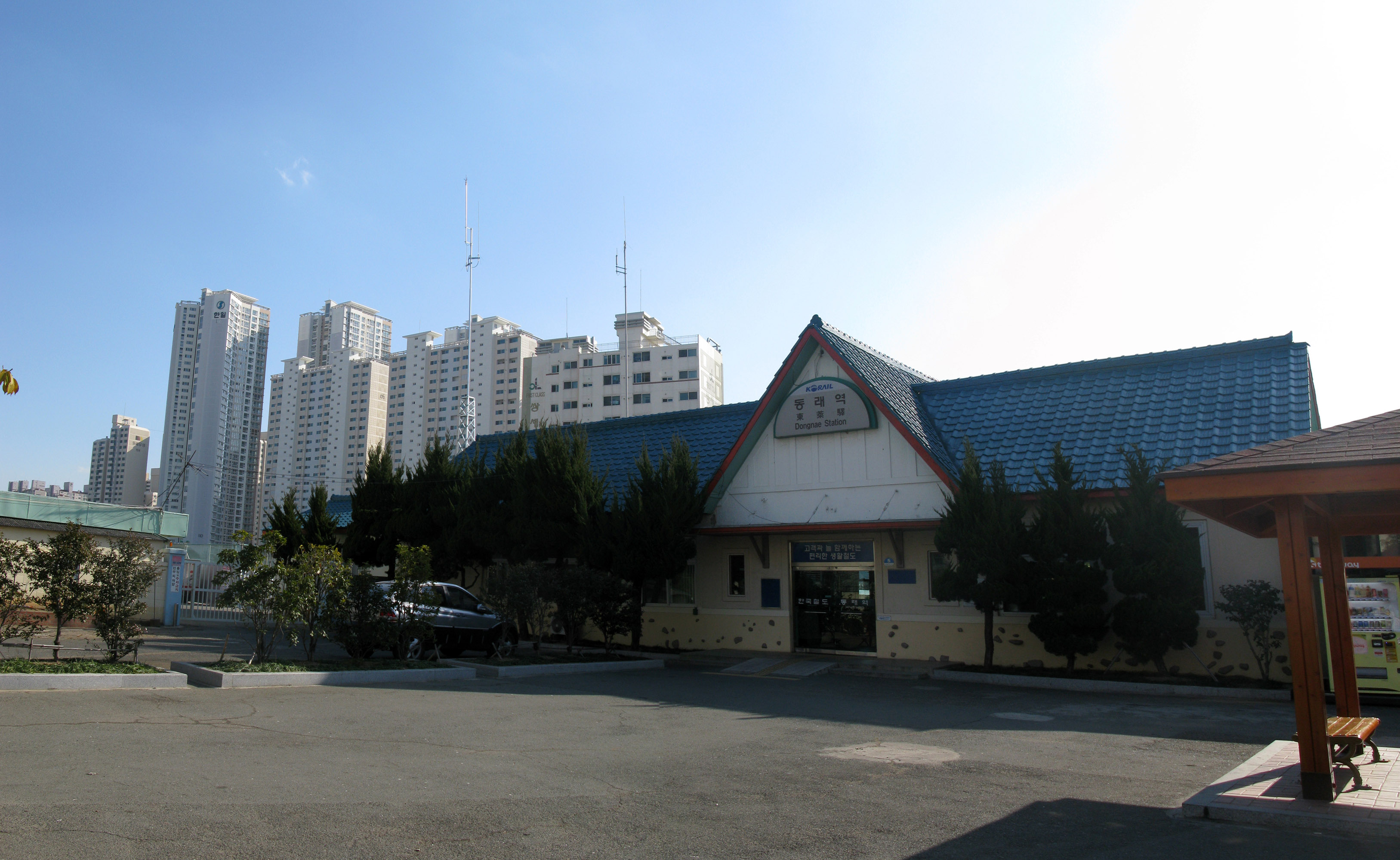 Donghaenambu Line Dongnae Station